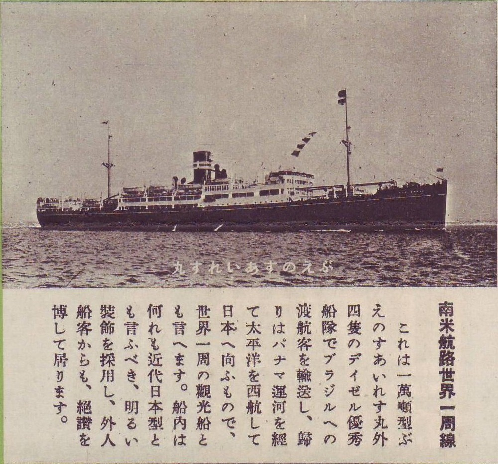 O.S.K. Line "Buenos Aires Maru" "To transport tourists to travel to Brazil with excellent fleet of four ships and other diesel Maru "Buenos Aires Maru" type t 10,000 ton, this route is the way back to Japan one westbound towards the Pacific Ocean via the Panama Canal in, it can be said of the tour boats around the world. Adopted should say any modern Japanese-style, bright decorations, but also from foreign passengers, the ship has earned rave reviews." (From the description below)